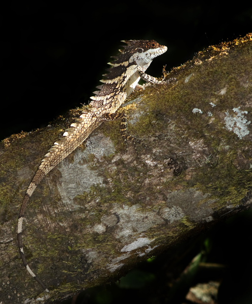 Snout long, measuring nearly twice the diameter of the orbit; tympanum 1.6 times the diameter of the orbit; upper head-scales rather large, feebly keeled, with a regular curved series of enlarged scales bordering the supraorbital region internally: an enlarged tubercle behind the supraciliary edge and a few others scattered on the back of the head; a row of 3 or 4 enlarged scales from the eye to above the tympanum. Gular scales a little larger than ventrals, smooth or keeled. A well-marked curved fold on each side of the neck, in front of the shoulder. Dorso-nuchal crest continuous, composed of large lanceolate spines. Dorsal scales of unequal size, their arrangement varying considerably, strongly keeled, the upper ones pointing upwards and backwards, the others straight backwards or backwards and downwards; ventral scales very strongly imbricate, strongly keeled, and ending in a spine. The adpressed hind limb reaches the neck. Tail strongly compressed, in its anterior half with an upper crest nearly as much developed as the dorsal; caudal scales rather unequal in size, keeled, rale olive above, with 4 broad angular dark-brown cross bands on the back, separated by narrow interspaces; head to the lip dark brown, with small light spots; limbs and tail with more or less regular dark-brown cross bars.praveen Dwarkanath.[1] From snout to vent 4.3 inches.